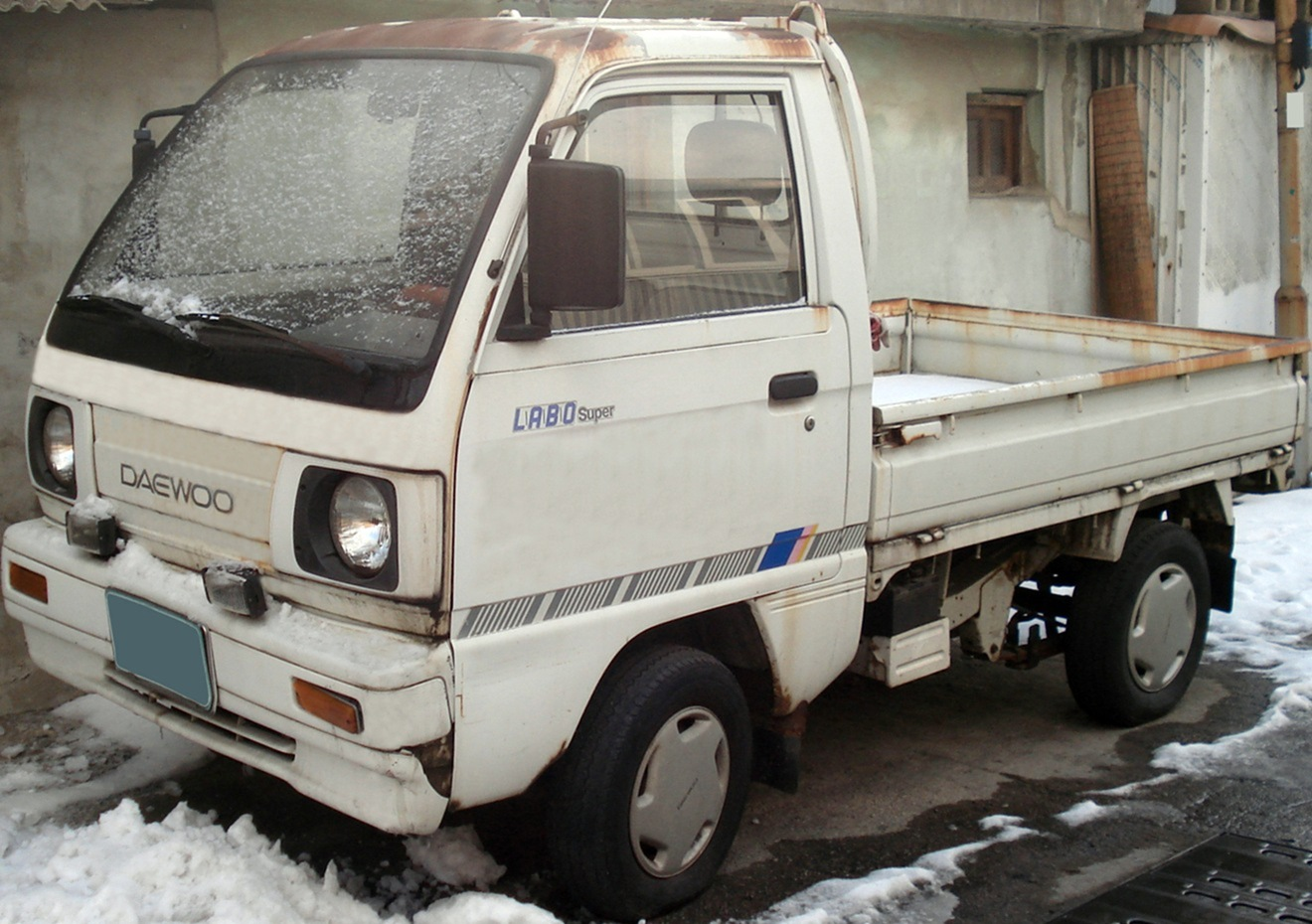 Daewoo Labo